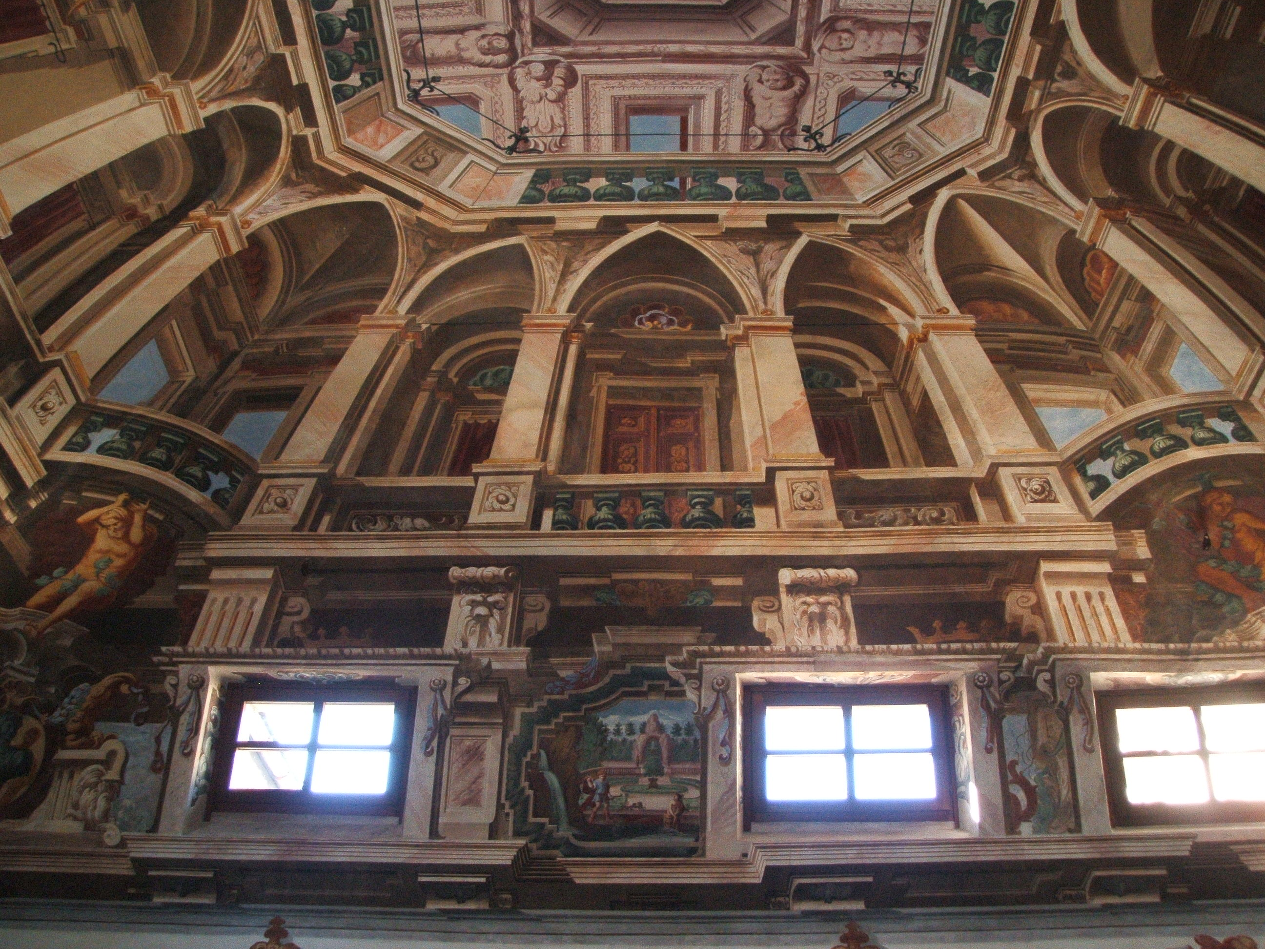 Saloncello Hall - PALAZZO SALIS (XVI-XVII century) in Tirano (SO)